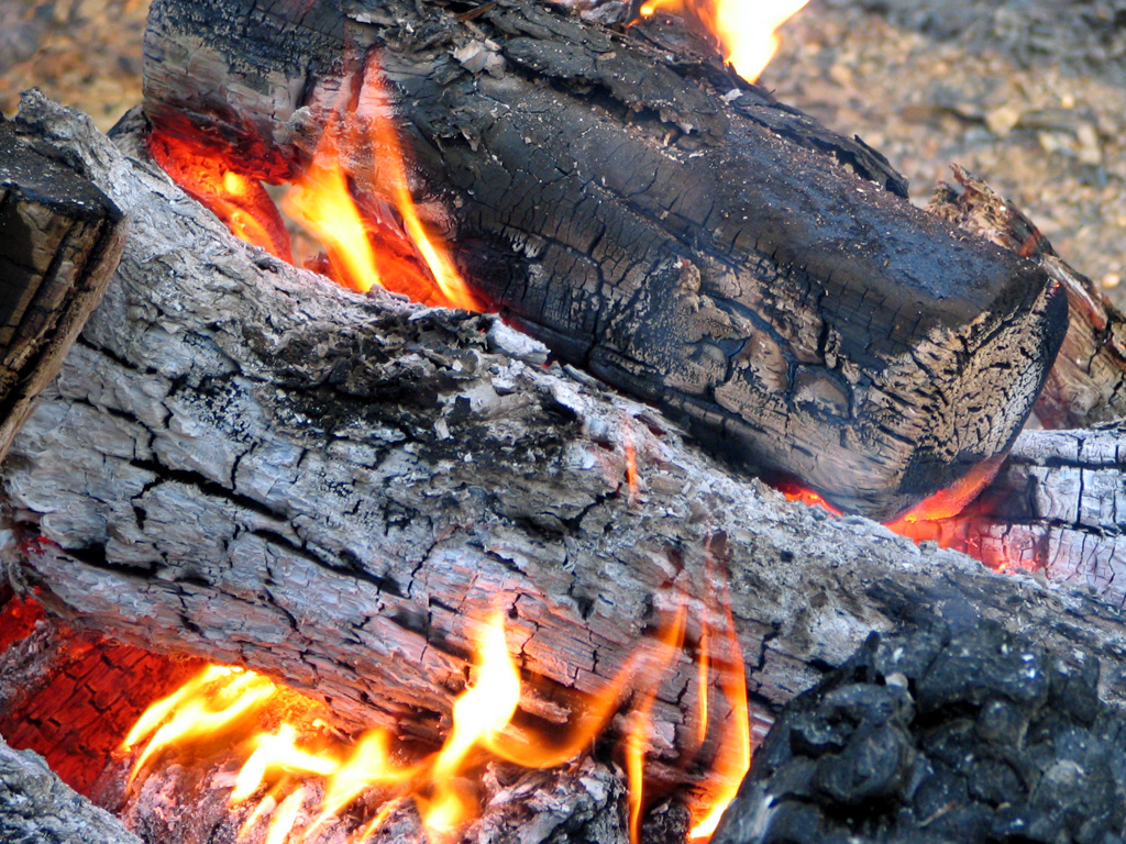 Firewood with flame, ash and red embers.